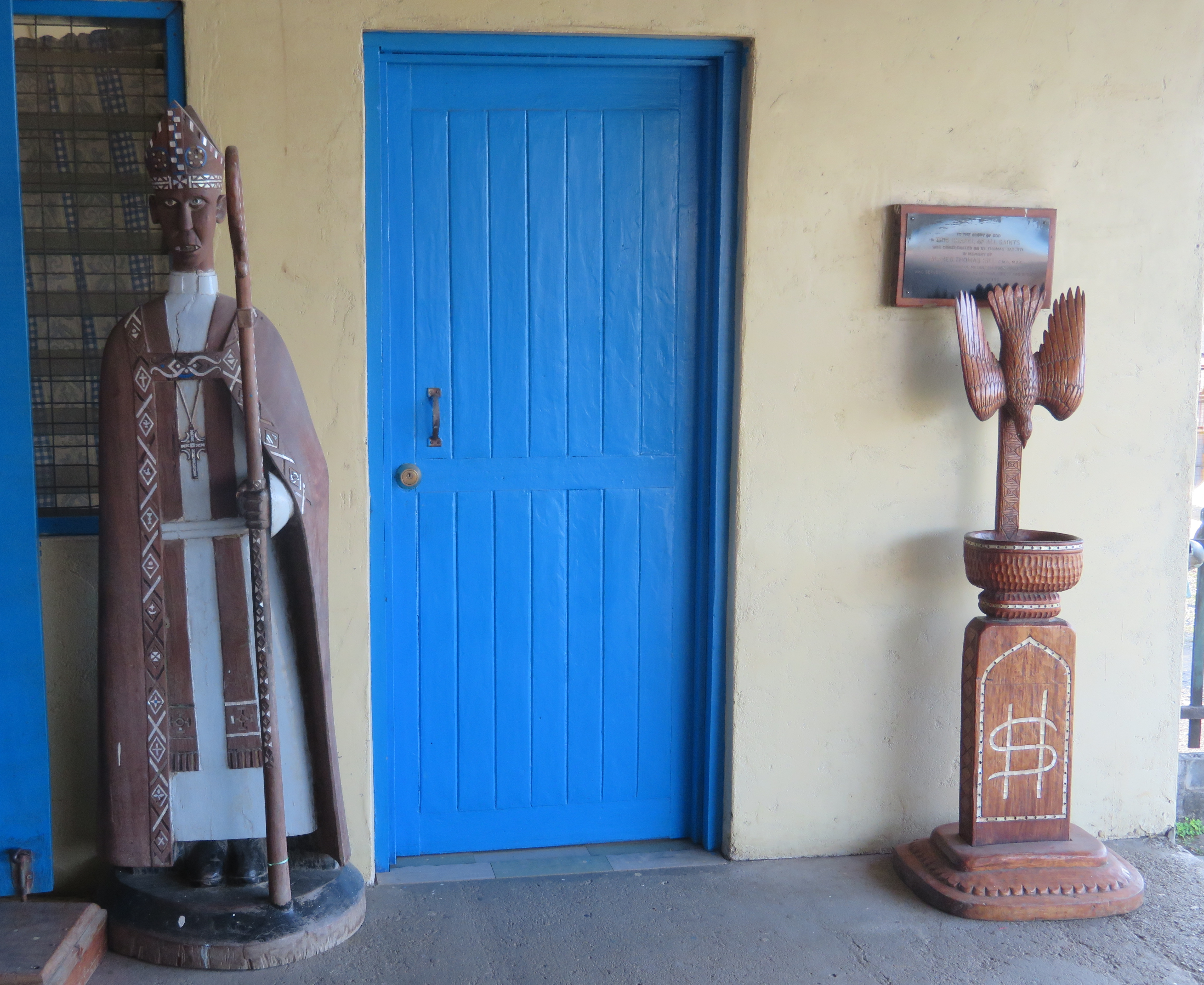 All Saints Anglican Church, Honiara, Solomon Islands